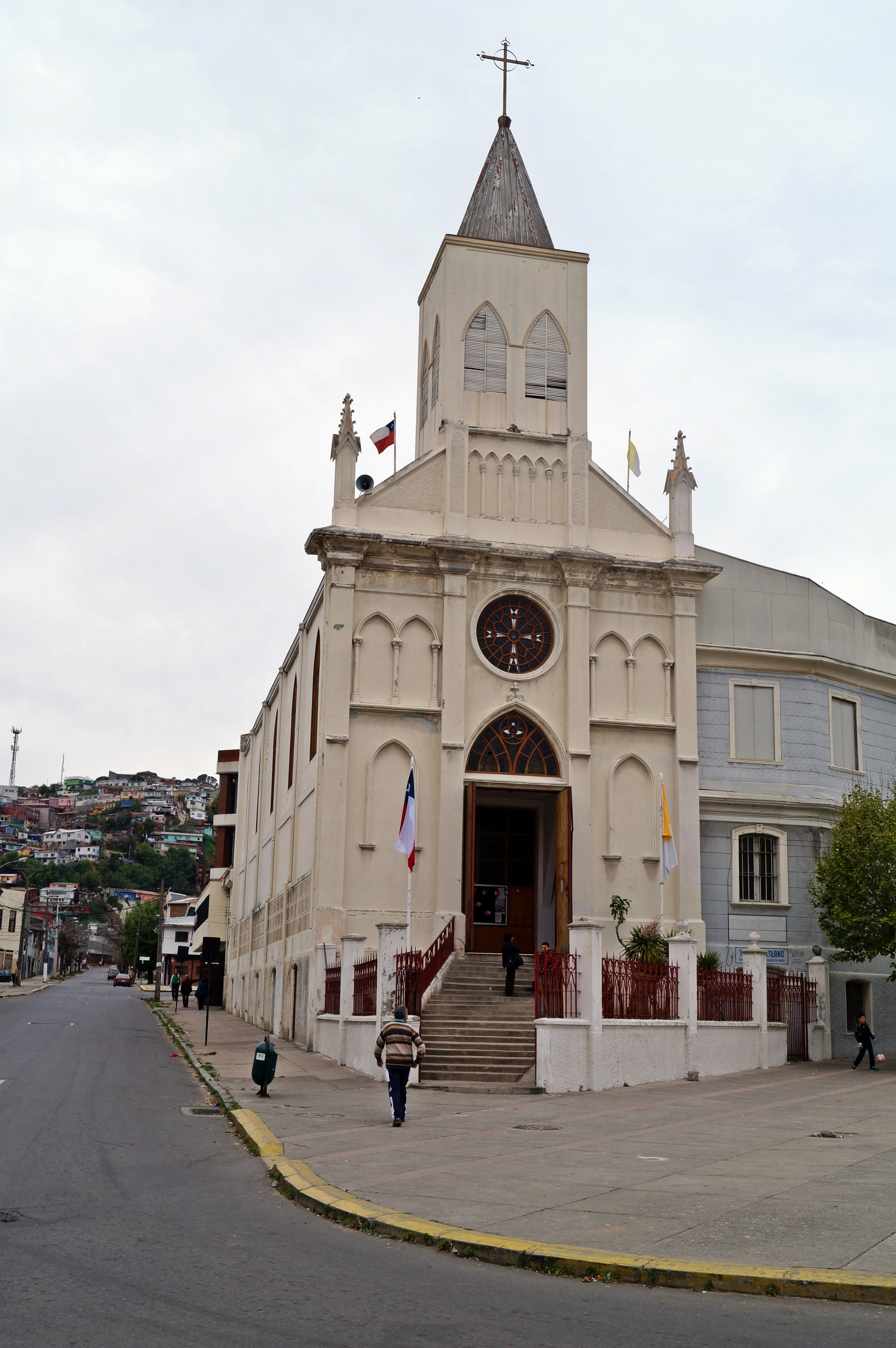 This is a photo of a national monument in Chile: 580